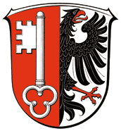 Coat of Arms of Gründau